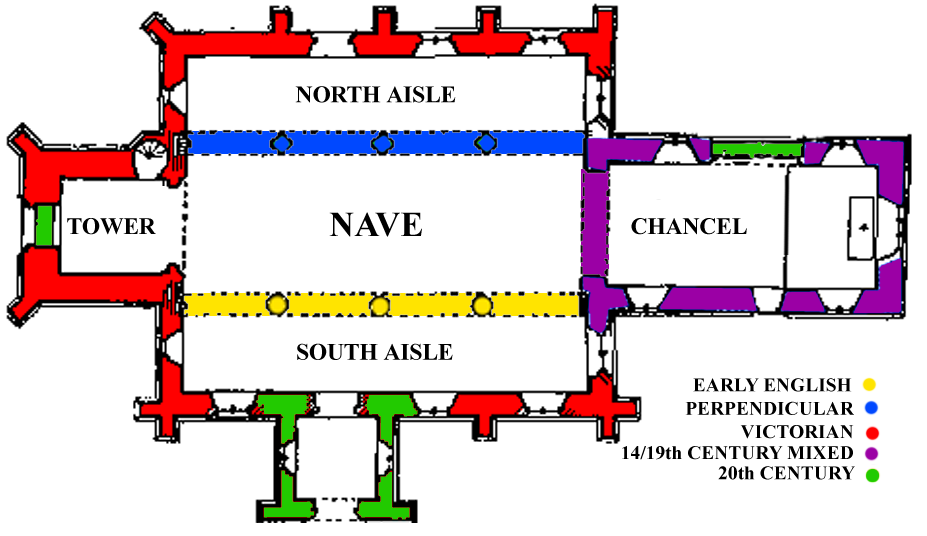 Floor plan of St Andrew's church, Woodwalton derived and updated from "Parishes: Wood Walton", A History of the County of Huntingdon: Volume 3 (1936), pp. 236-241. [1] The plan has been updated to recognise the loss of the vestry, and also to clarify the "modern" designation for Victorian work. Original shading adapted to colour key.